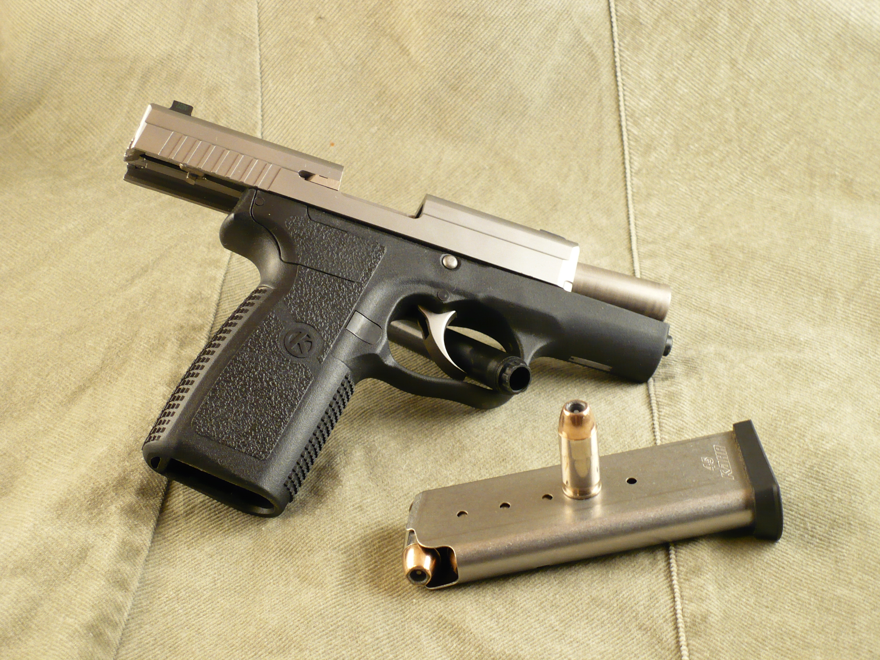 Manufacturer Kahr Arms, Model P45, Action Semi-automatic, Type Double Action Only, Size Compact, Caliber 45 ACP, Barrel Length 3.6", Frame/Material Polymer, Finish/Color Matte Stainless, Capacity 6Rd, Sights Fixed Sights